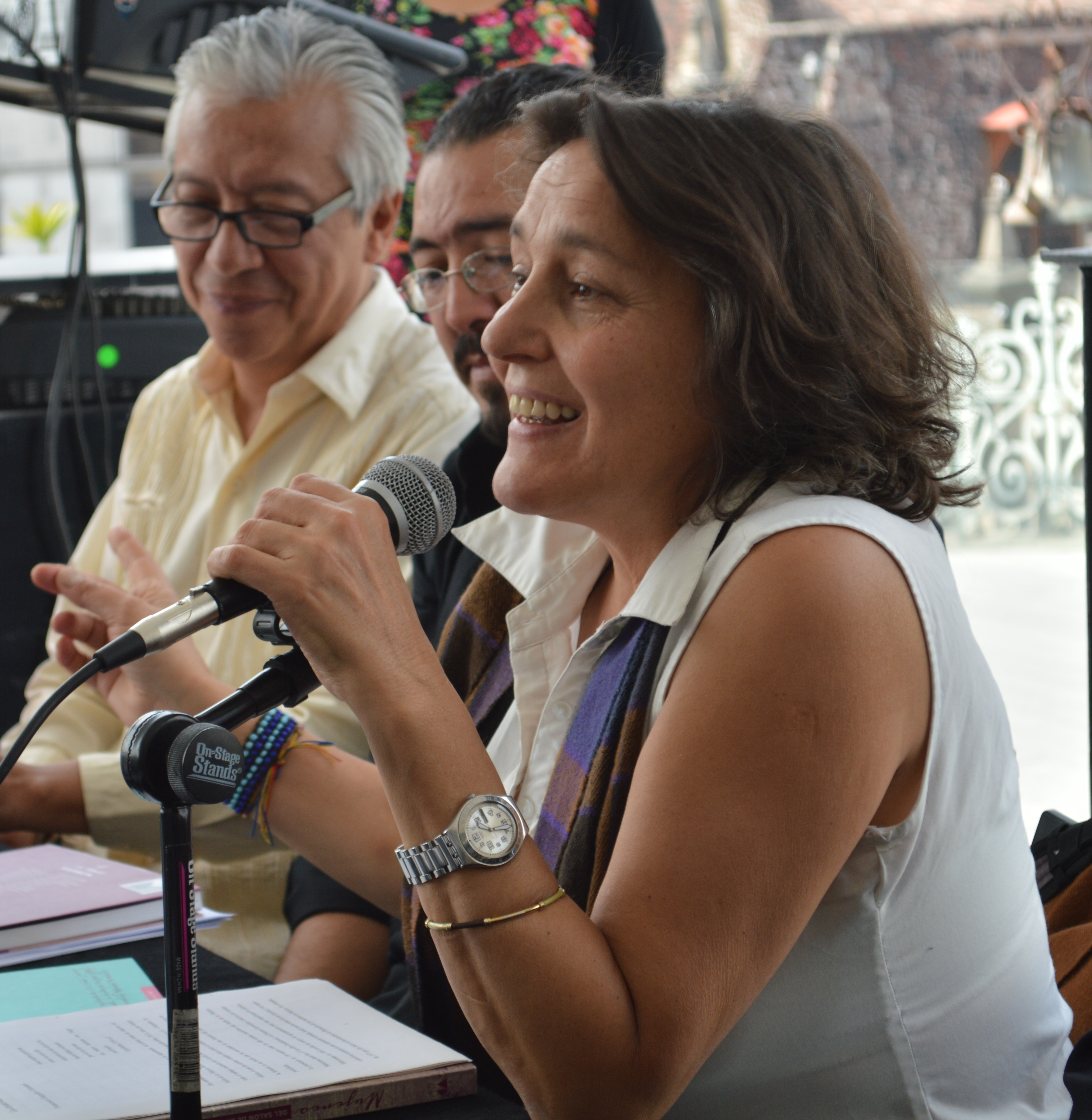 Francesca Gargallo speaking at the presentation of the book "Mujeres del Salon de la Plastica Mexicana" vol 1 at the Museo del Estanquillo in Mexico City